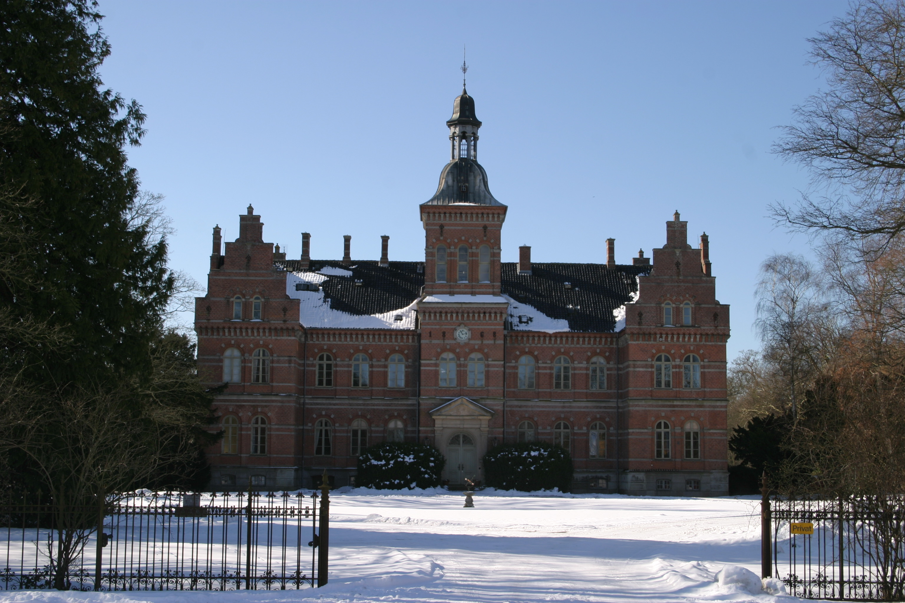 Rosenfeldt Estate (Rosenfeldt Gods) outside Vordingborg, Denmark